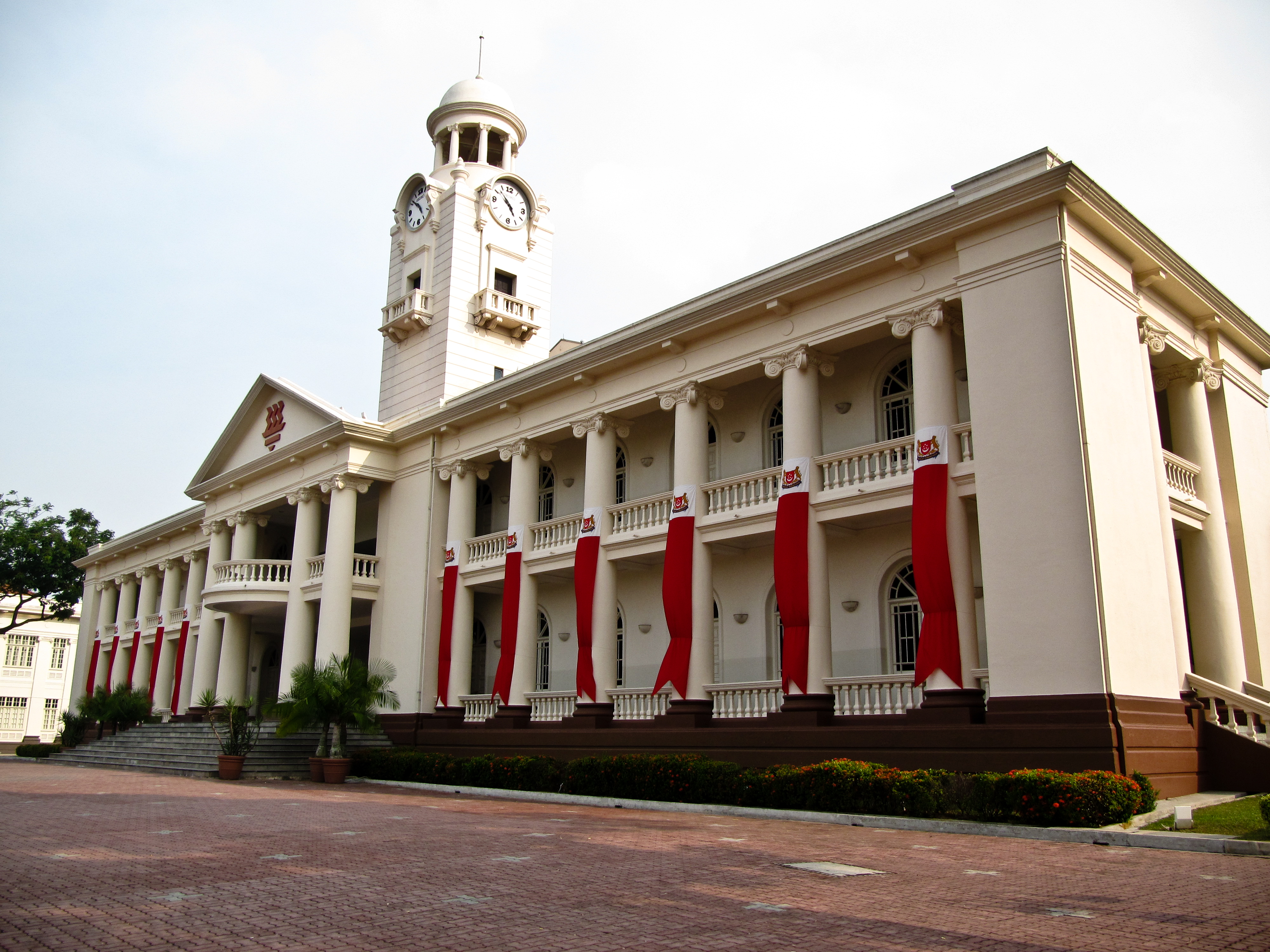 Tower block of The Chinese High School, now known as Hwa Chong Institution.